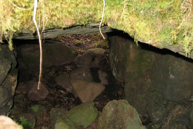 Inside Glen Bracadale Souterrain.